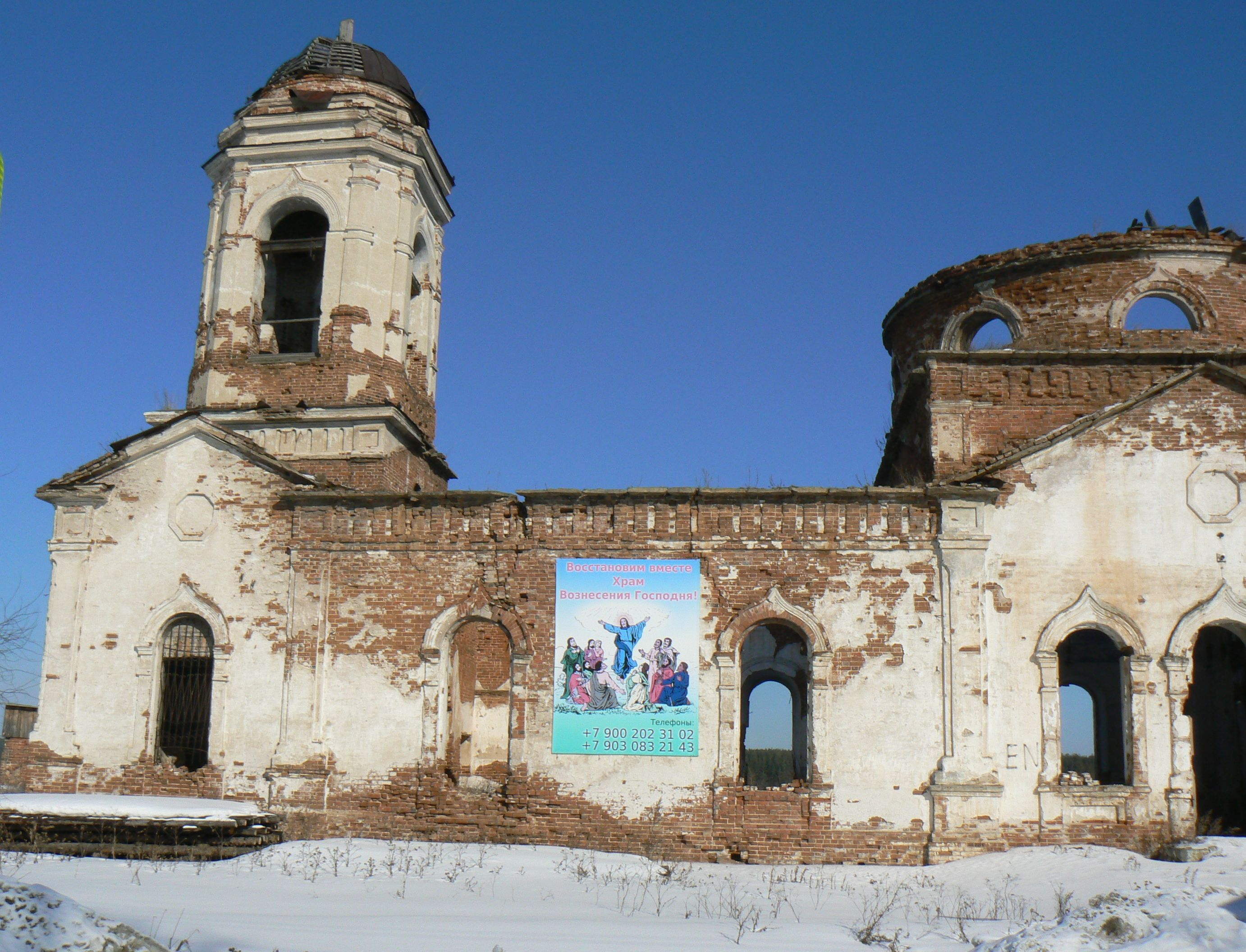 Filatovskoe settlement (Sukhoi Log munitipality), destroyed church